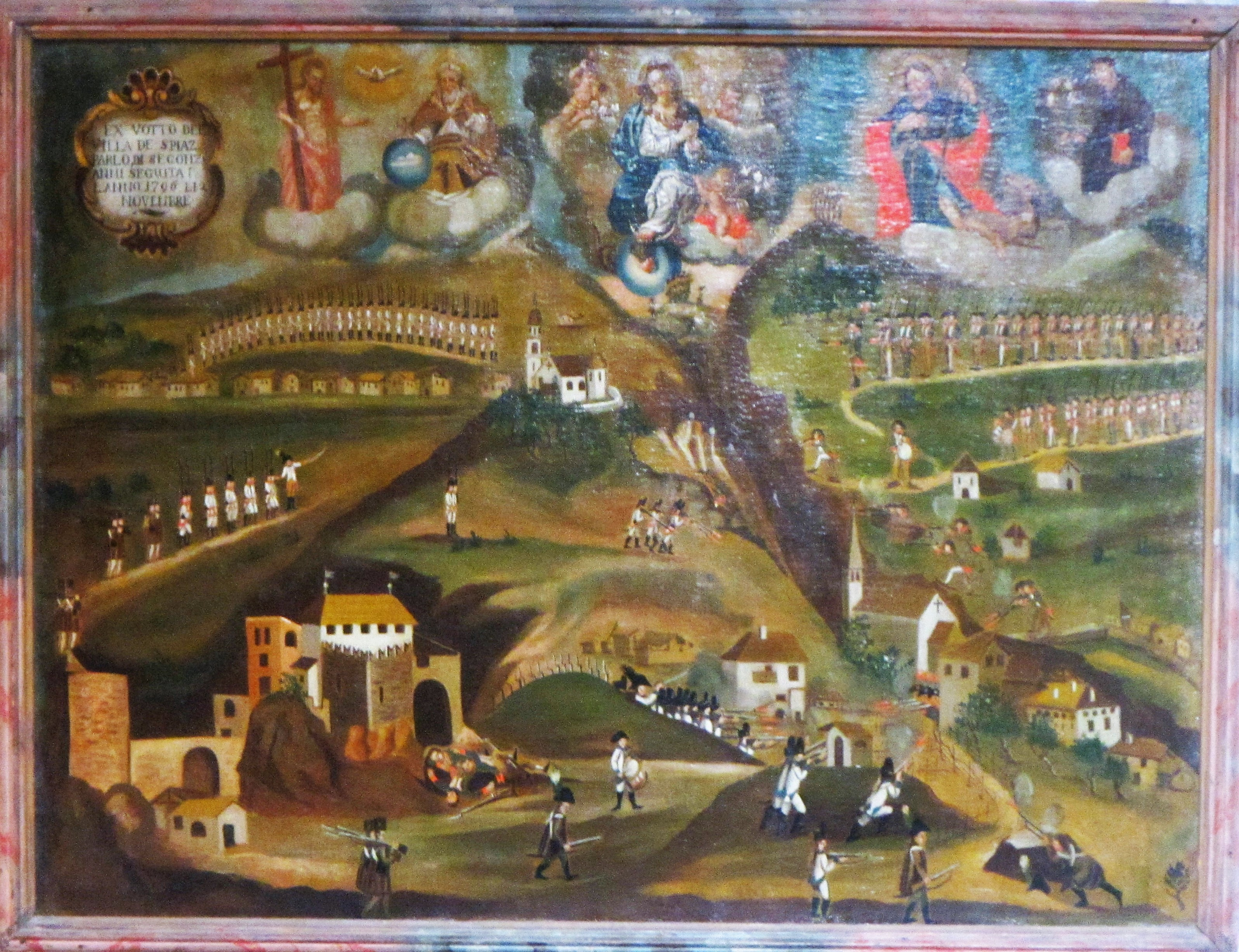 Painting representing the battle of Segonzano in 1796 between french and austro-hungarian troops 2014-06-19 17:08:08